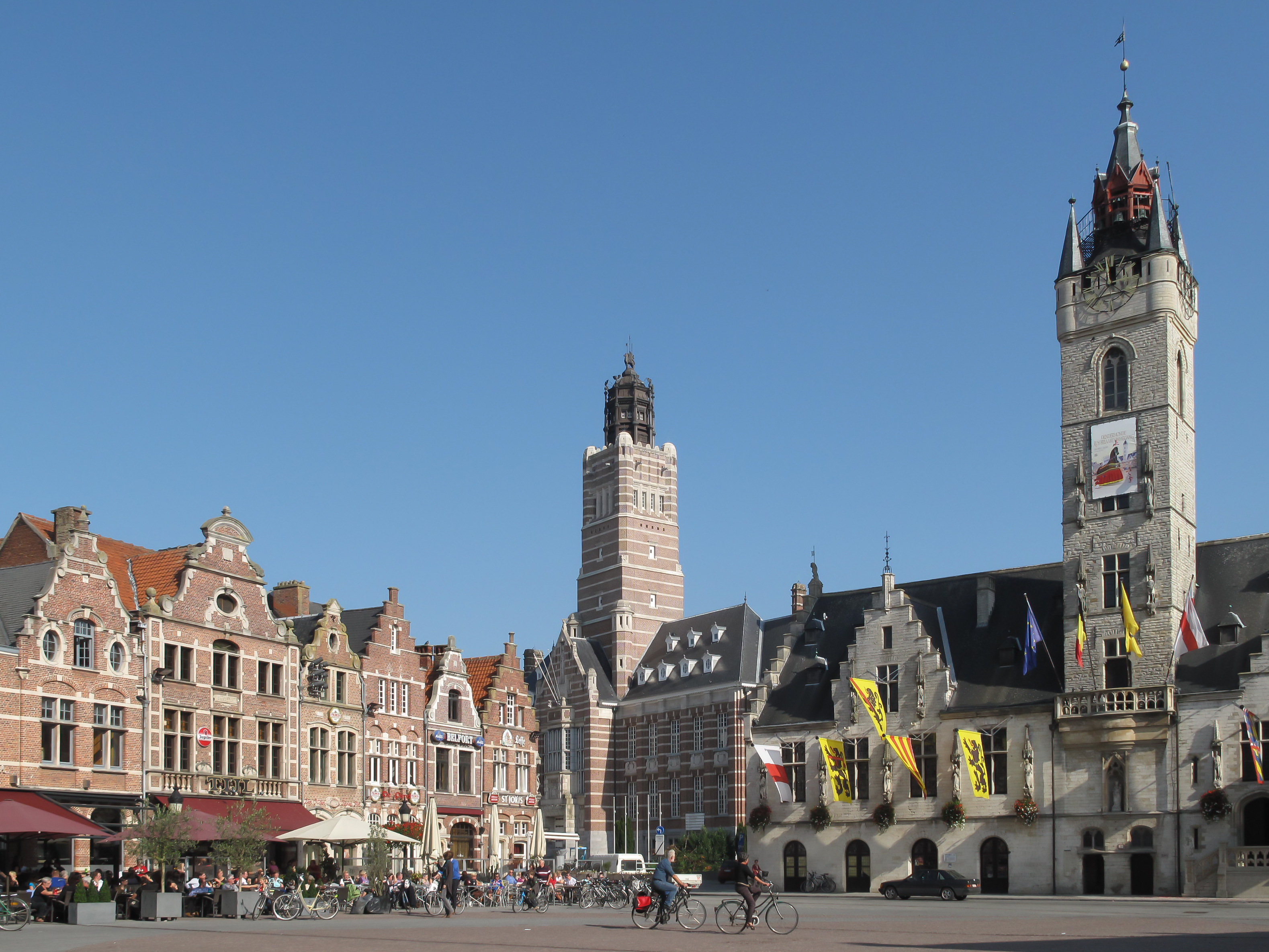 Dendermonde, town hall on de Grote Markt